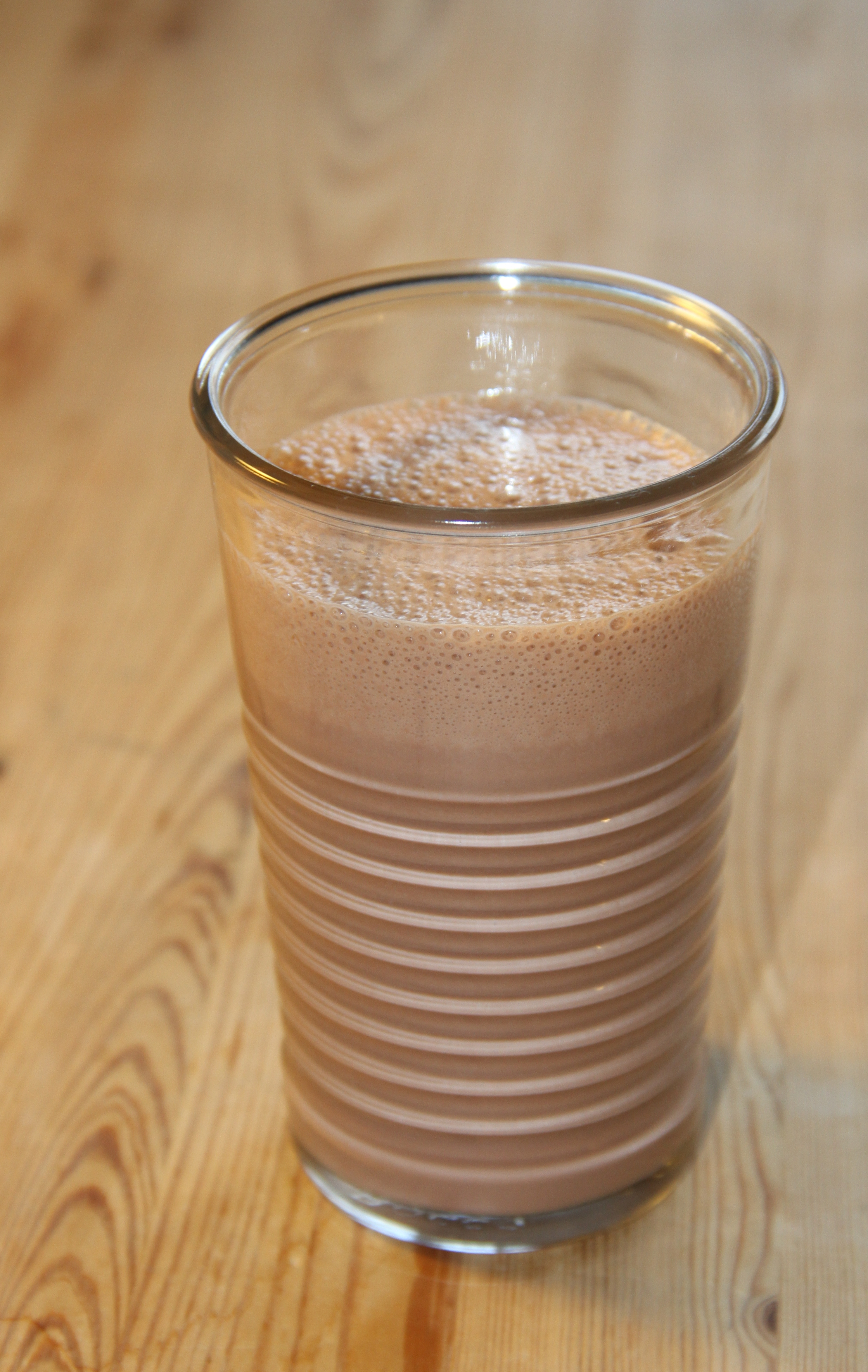 Chocomel